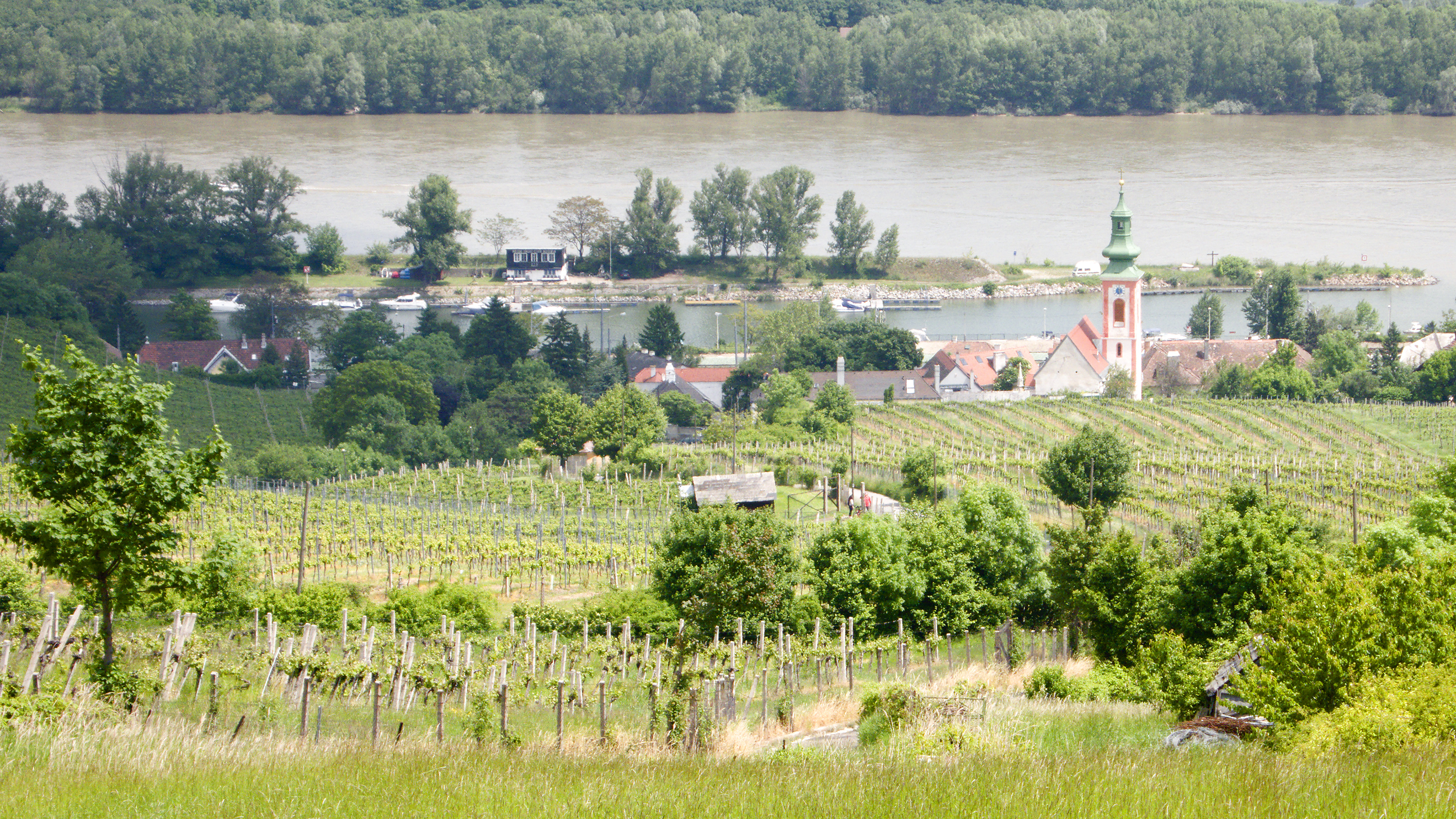 Kahlenbergerdorf in Vienna Döbling